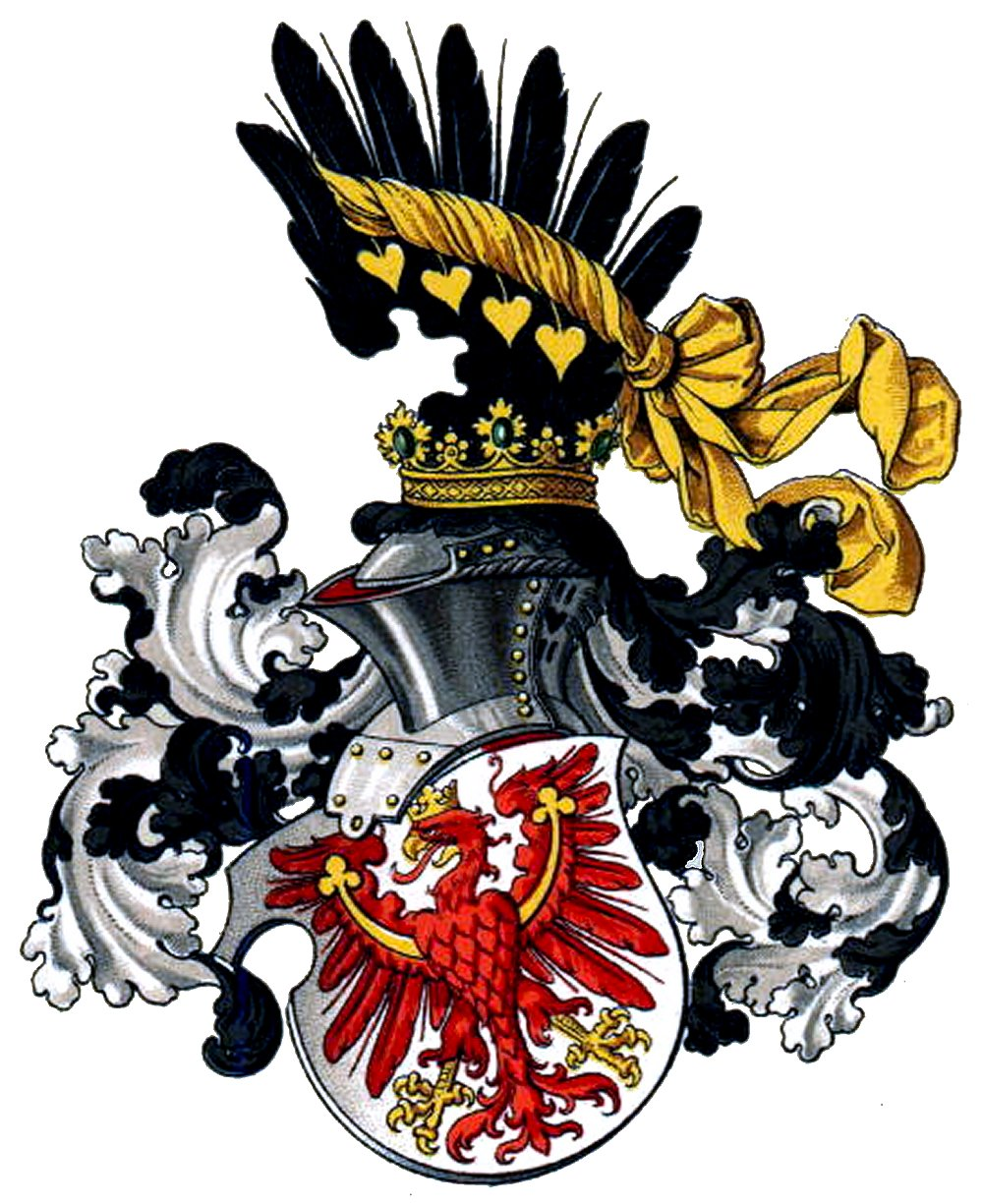 Historical coat of arms of Tirol